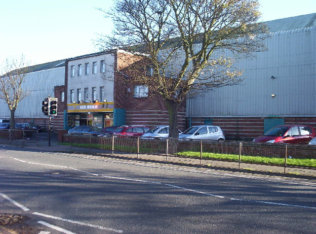 Ice Rink. Whitley Bay Ice Rink and ten-pin bowling centre. In the 80s and 90s, this place used to regularly host gigs as well, but this practice seems to have diminished greatly in recent years.